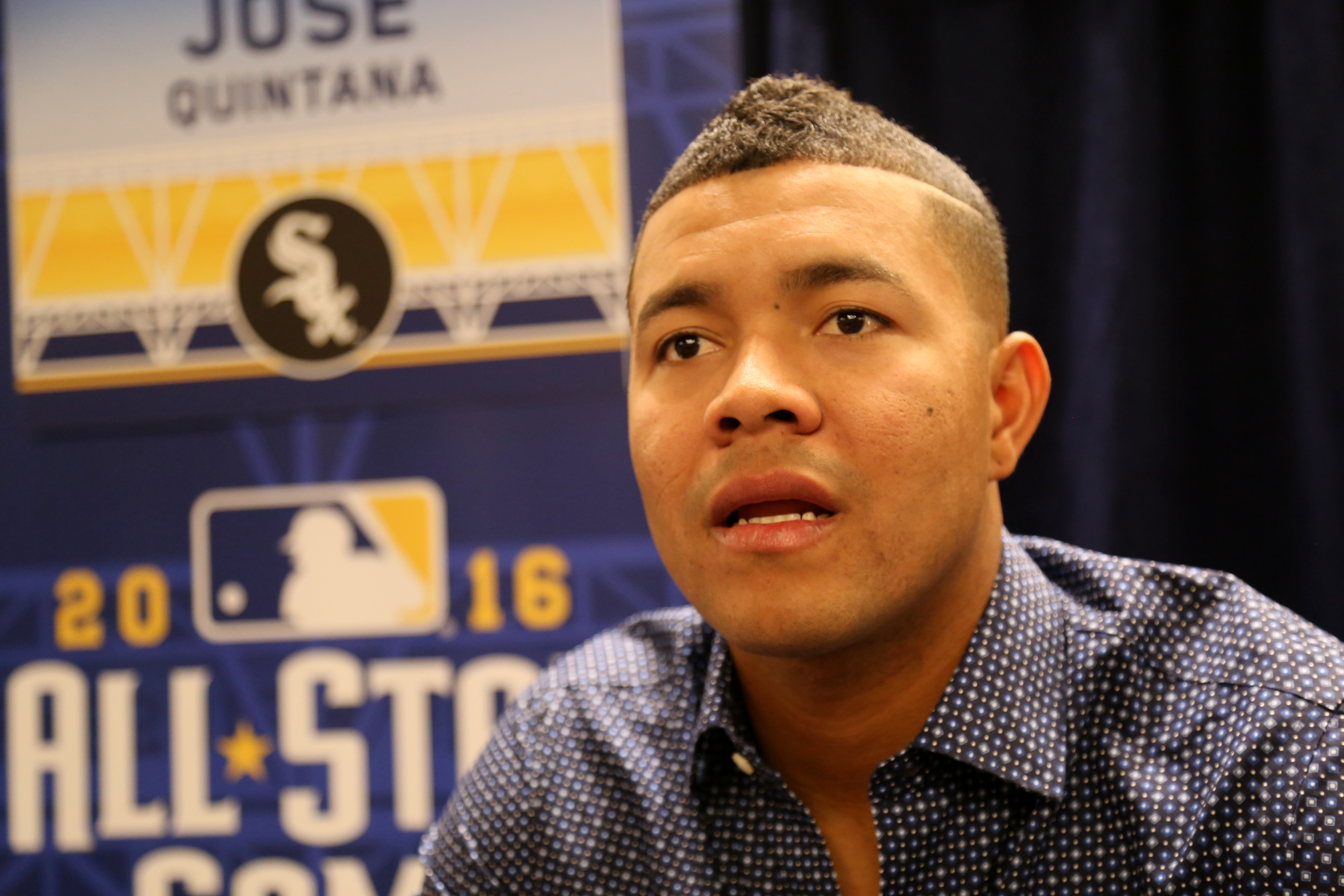 White Sox pitcher Jose Quintana talks to reporters at 2016 All-Star Game availability.